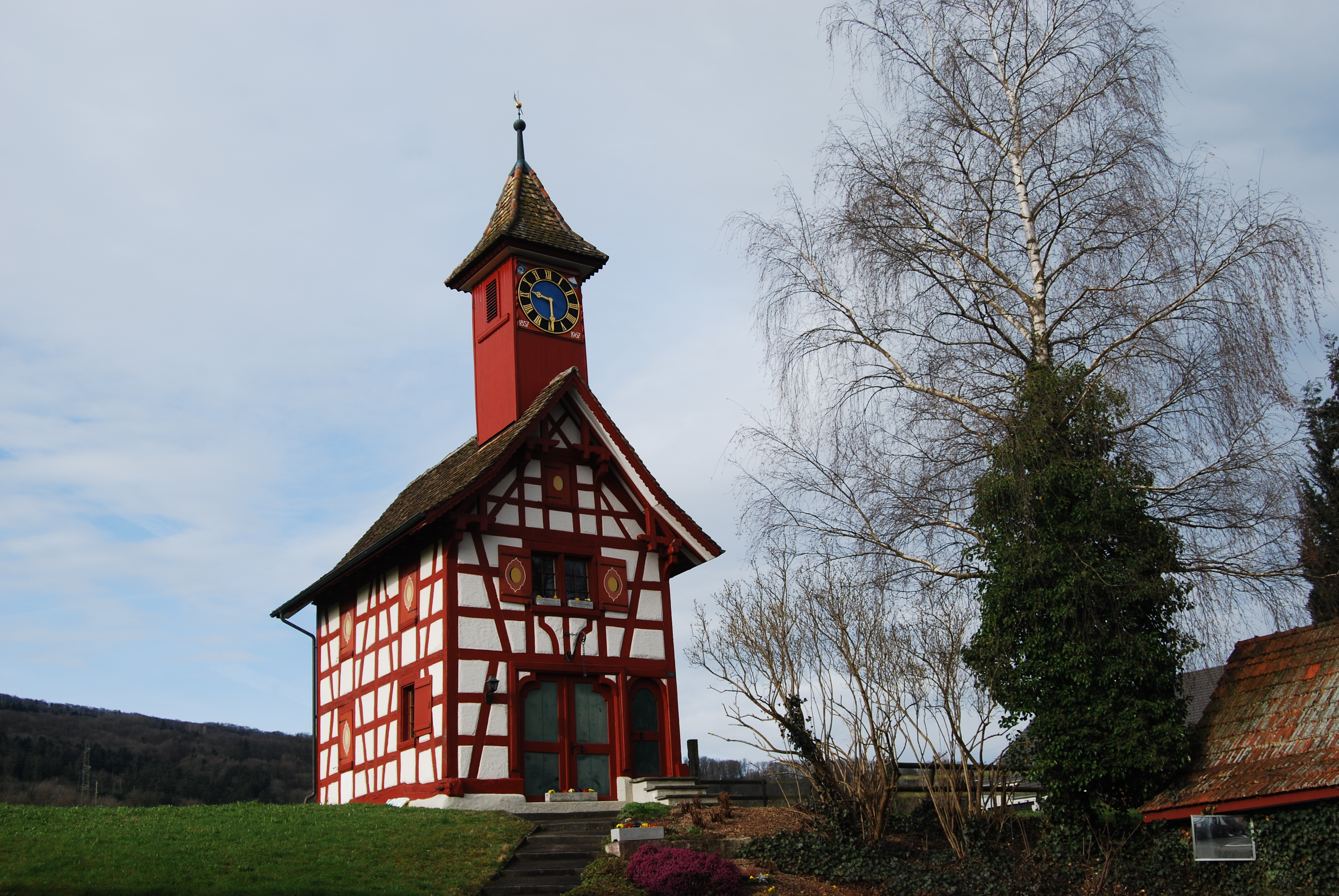 Zythüsli, timber framing construction at Schleinikon, canton of Zürich, SwitzerlandEsperanto: Zythüsli (tempodometo), faktrabkonstruaĵo en Schleinikon, Kantono Zuriko, Svislando